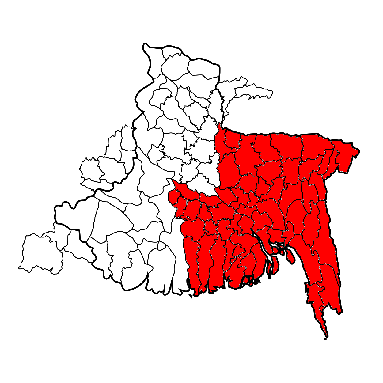 A map of Bengal (with Bengal proper in a bold border) and some other Bengali speaking districts of Assam and Jharkhand. The region in which the Bangali Dialect of Bengali is spoken is highlighted.